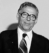 Photo of Blagoja Popov, macedonian politician